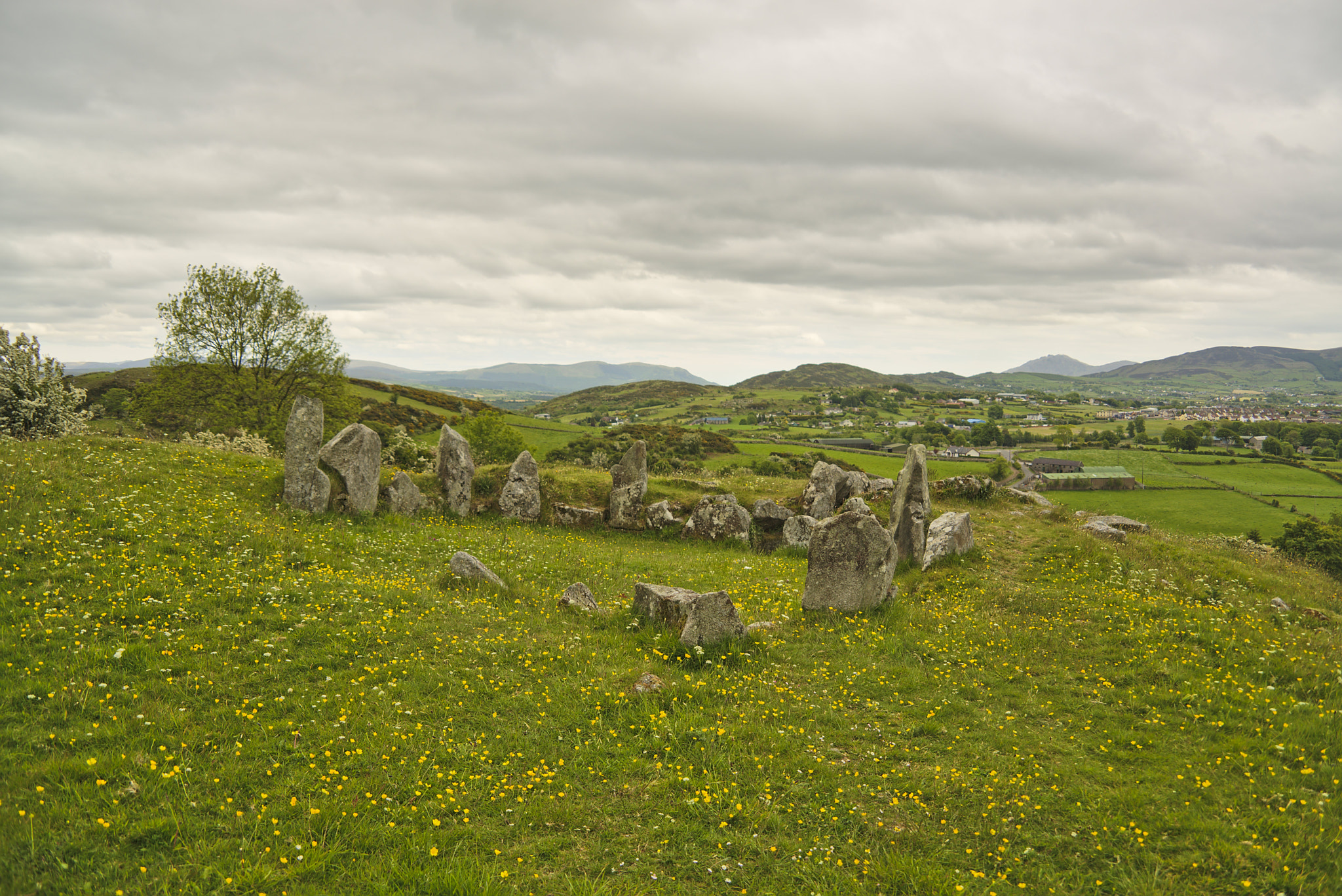 500px provided description: This fine court tomb on the south slope of Ballymacdermot Mountain dates from around 3500BC. It has three chambers in a gallery which was entered from the forecourt. [#sky ,#travel ,#stones ,#clouds ,#europe ,#architecture ,#rocks ,#history ,#uk ,#green ,#stone ,#ancient ,#ireland ,#historical ,#daisies ,#historic ,#tomb ,#northern ireland ,#prehistoric]